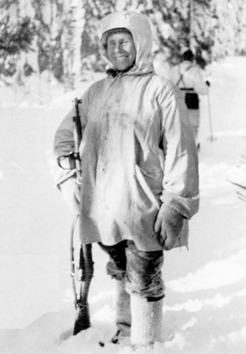 Simo Häyhä after being awarded with the honorary rifle model 28.